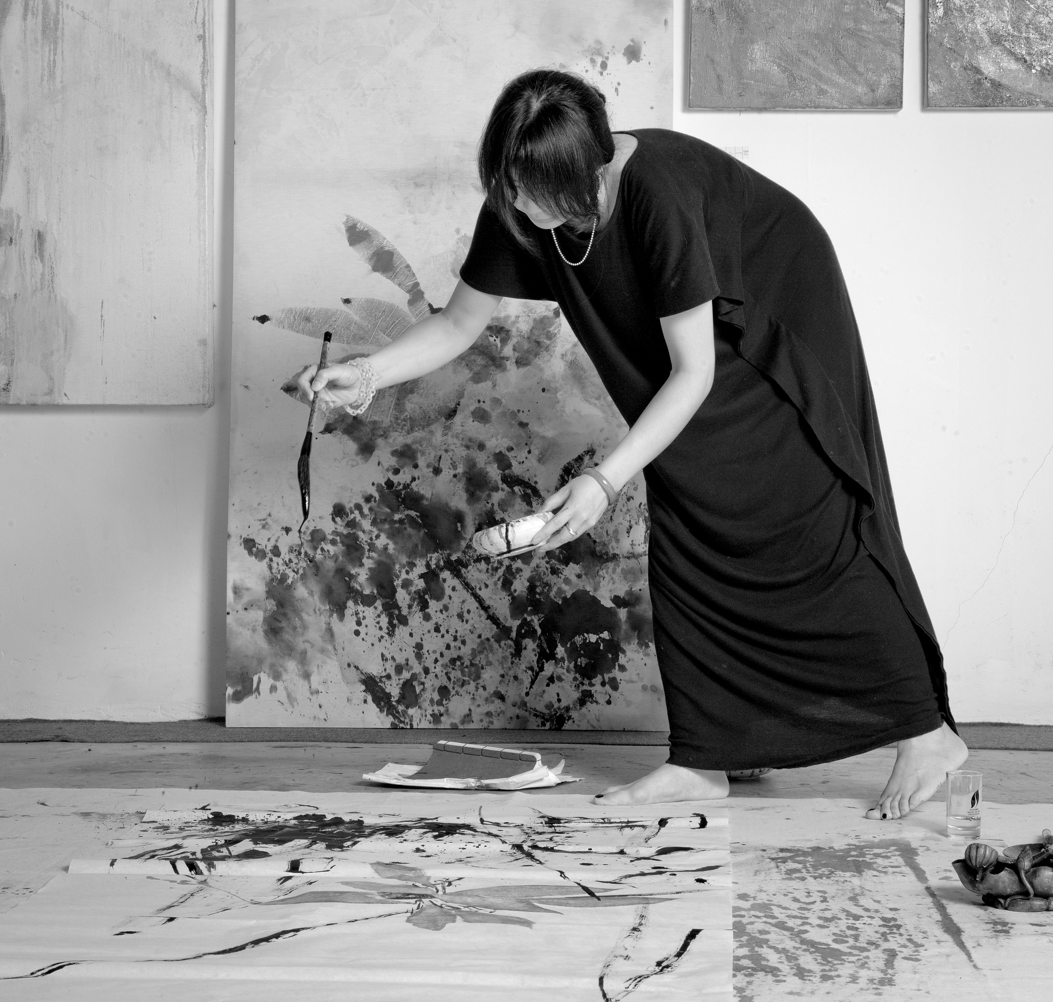 Artist Yelan painting with ink